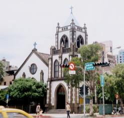 Chungshan Church, Presbyterian Church in Taiwan, is a former Taiwan Anglican Church built by Japan Anglican Church.